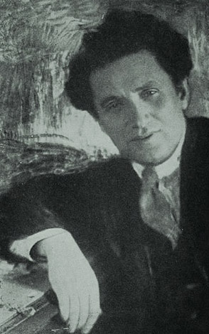 Grigorii Zinoviev, Soviet Communist Party leader and President of the Communist International From Isaac McBride's Barbarous Soviet Russia. (1920). Adapted from a scan in Wikimedia Commons. Public domain, published in the USA prior to 1923.